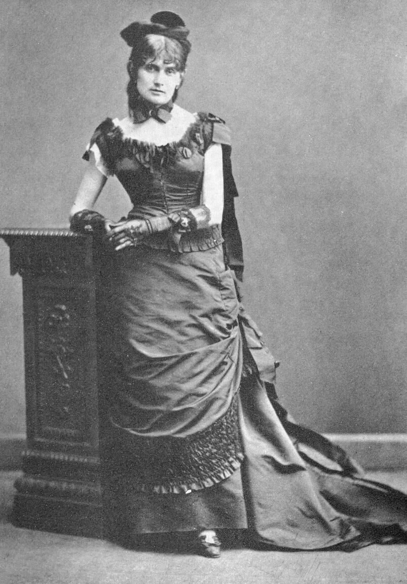 Berthe Morisot, photograph by Charles Reutlinger